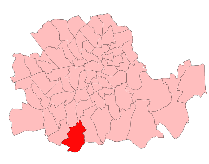 A map of Streatham constituency within the London County Council area, as it existed from 1918 to 1949.